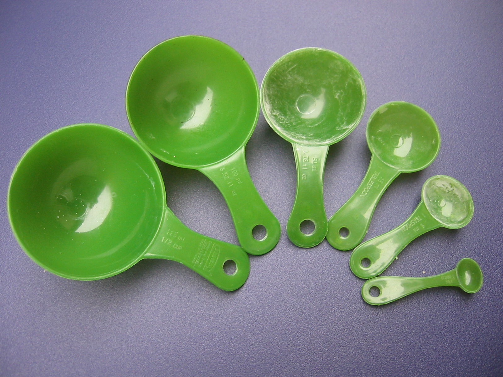 The front side of 6 measuring spoons and cups.